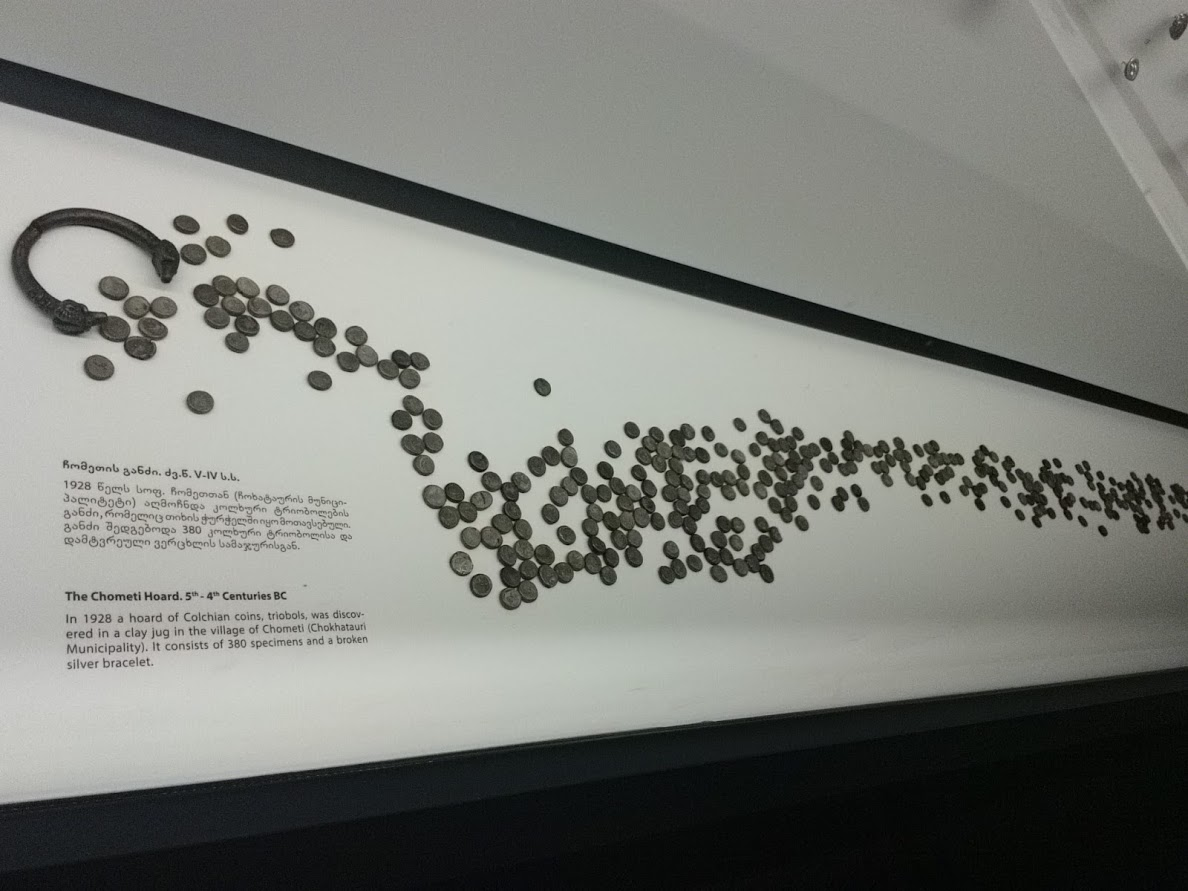 The Chometi Hoard